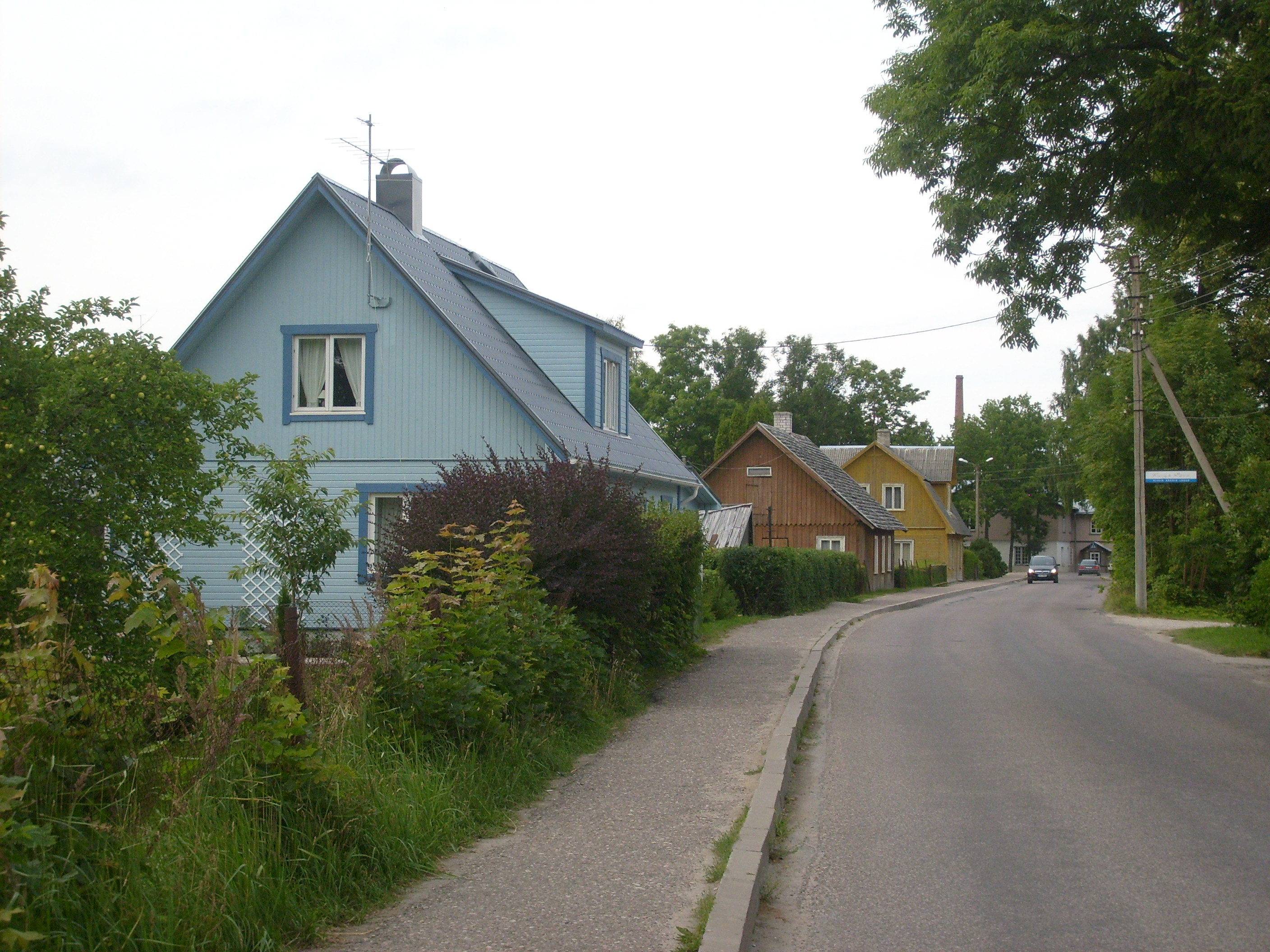 Streets of Kärdla, Hiiumaa, Estonia